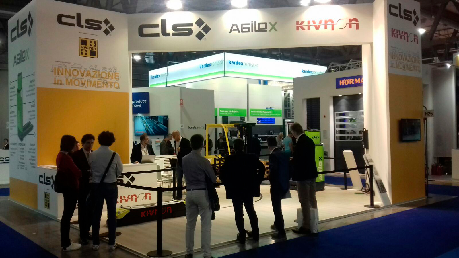 View of a stand at Intralogistica Italia (Milan)